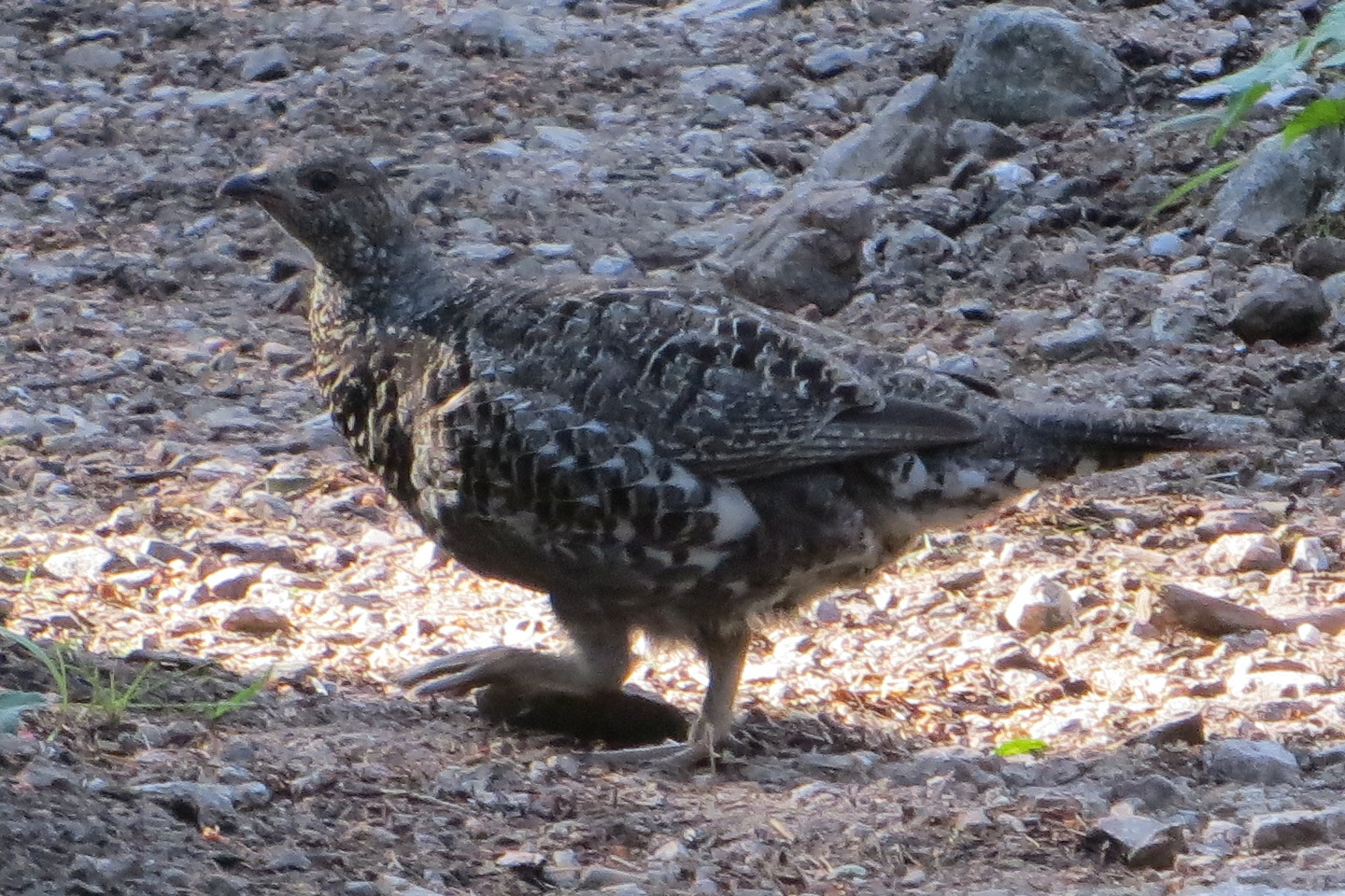 Female Dusky Grouse, Dendragapus obscurus, Trampas Lakes Trail (31), Carson National Forest, Taos County, New Mexico.